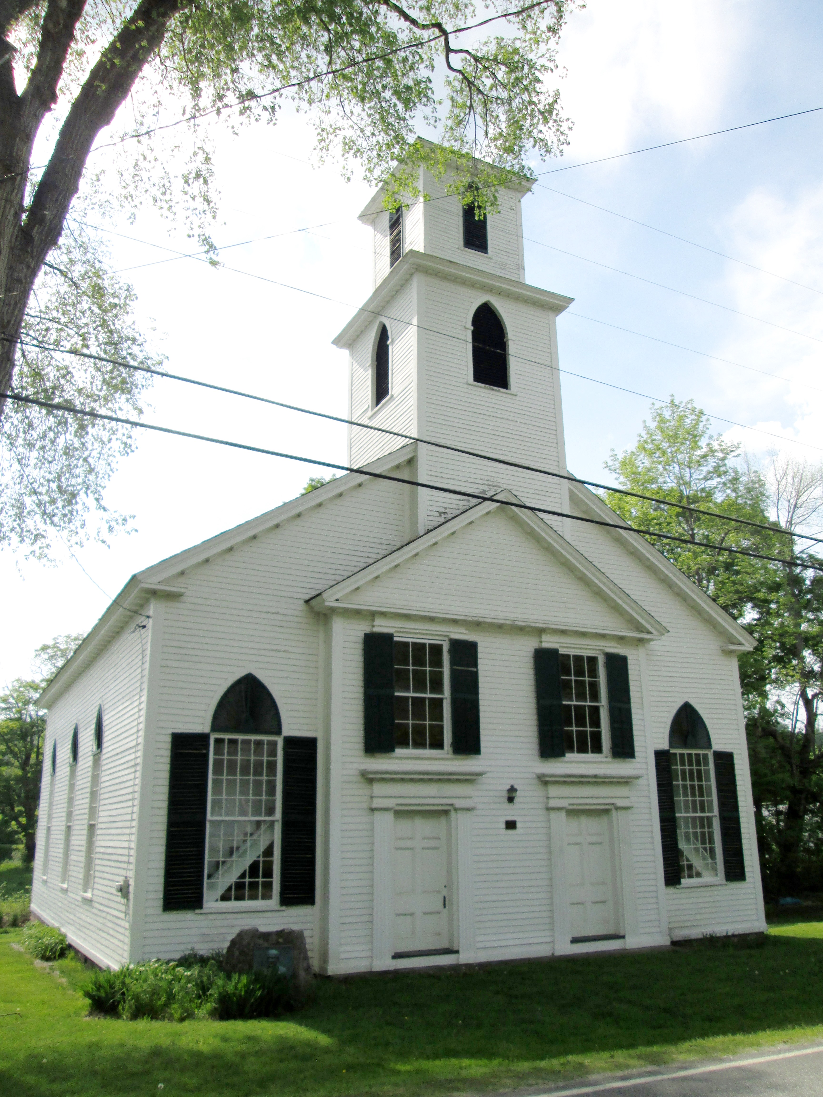 The Guilford Center Meeting House at 4042 Guilford Center Road in Guilford, Vermont, was built in 1837 as the Guilford Center Universalist Church. When the congregation shrank, the building was given to the Guilford Historical Society, which now maintains it. It is used for social and performance events. The building was listed on the National Register of Historic Places in 1982.